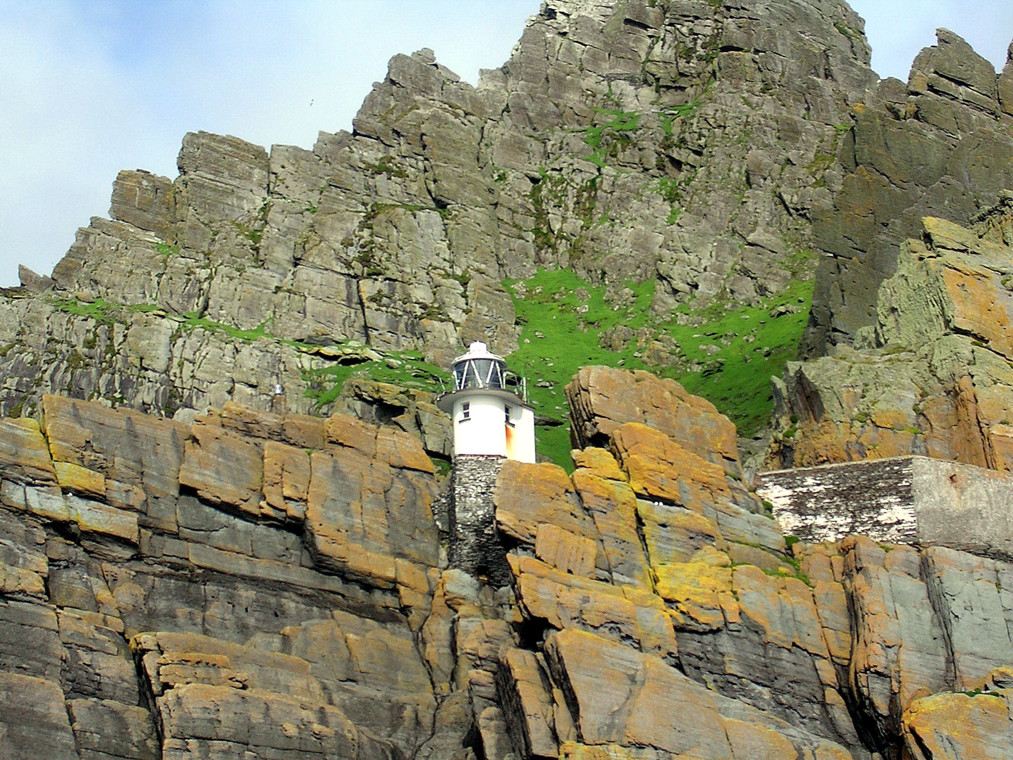 Lighthouse in Skellig Michael